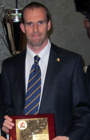 David Barrie receives the CSL Referee Year of the Award on November 14, 2011